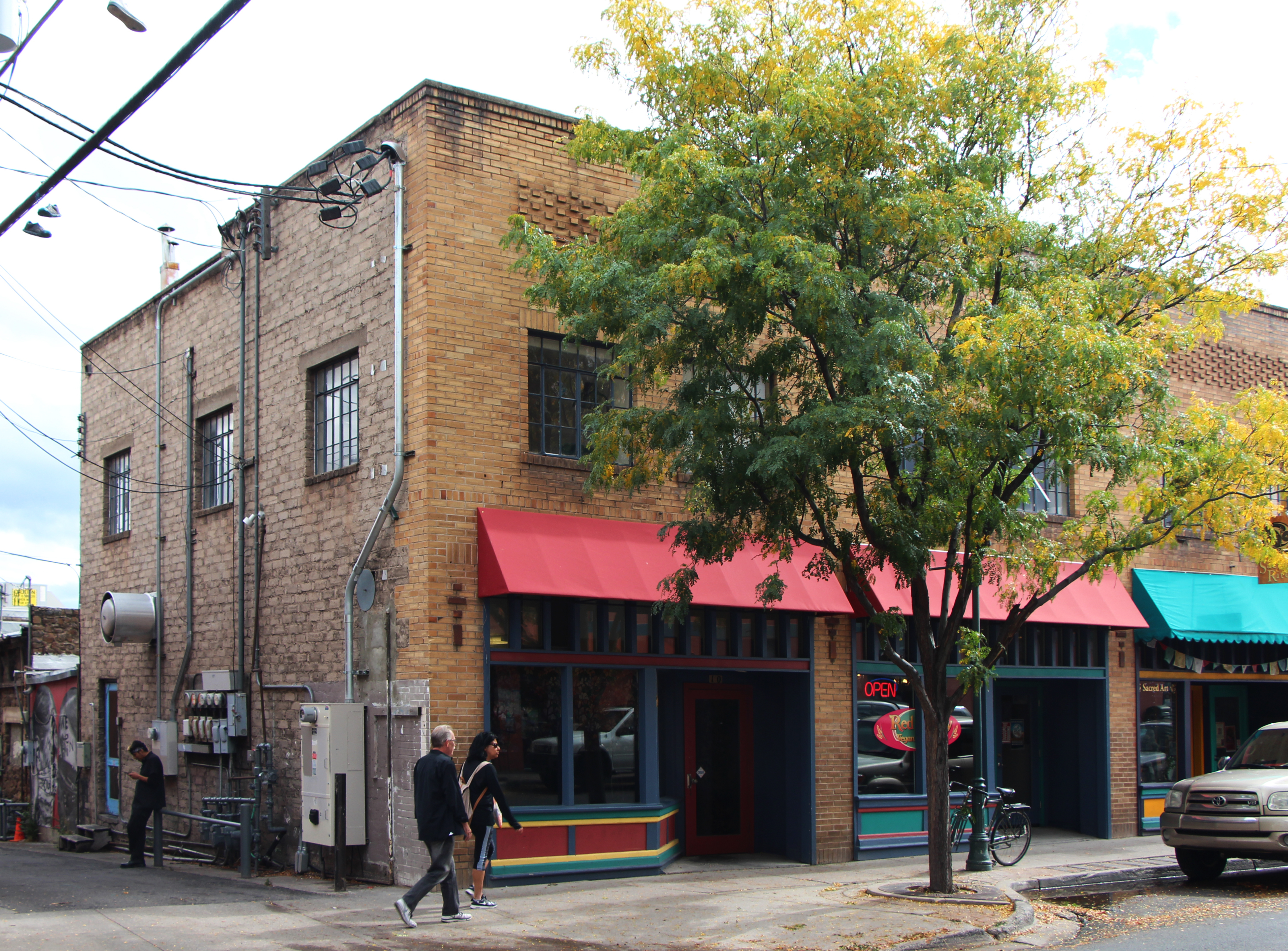 Babbitt Building #2, 10 E Aspen Ave, Flagstaff, AZ